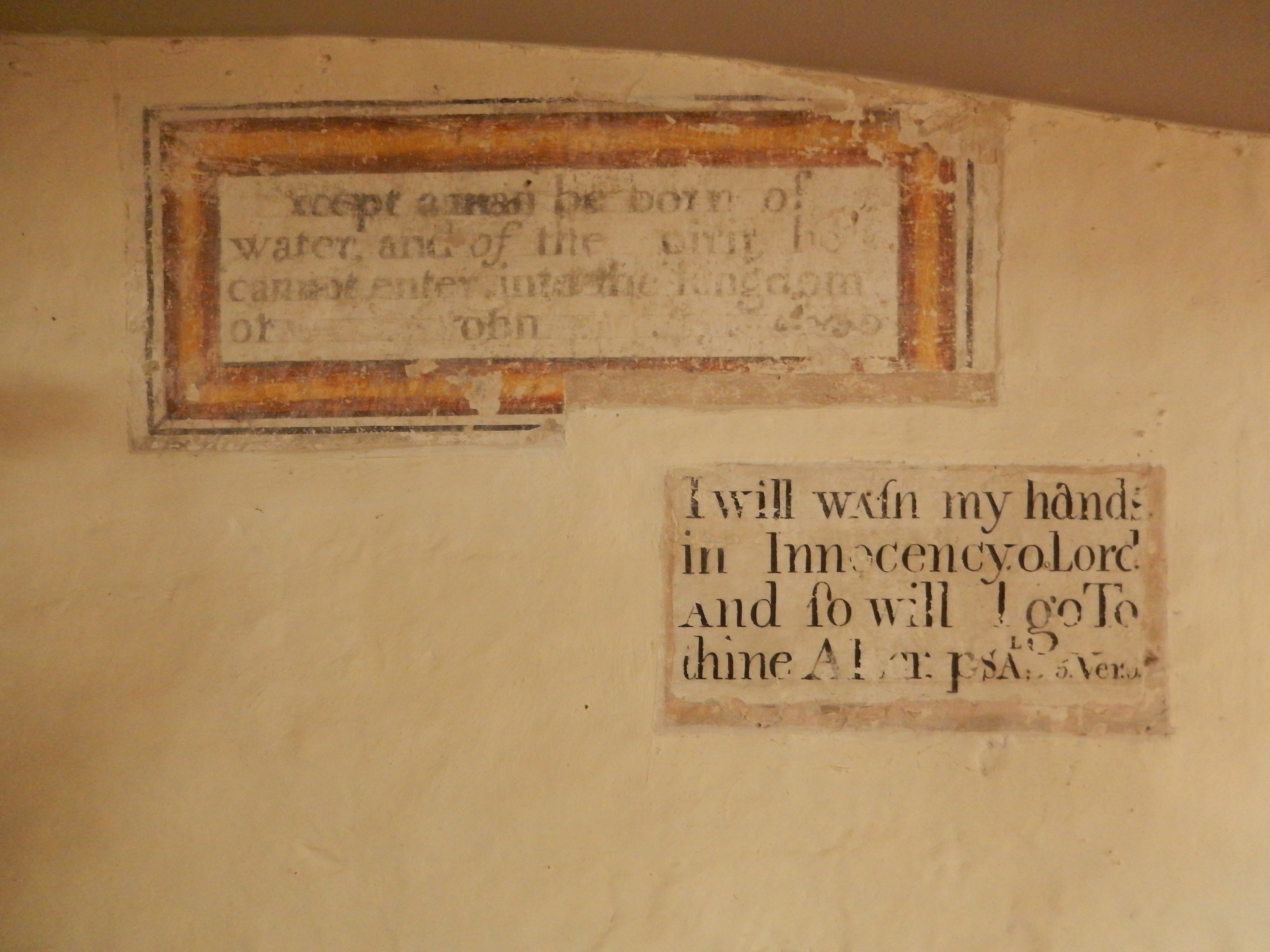 Wall paintings of the text of John 3:5 and Psalm 26.6 on the west end of the north wall of the church of St James, Bramley, Hampshire.